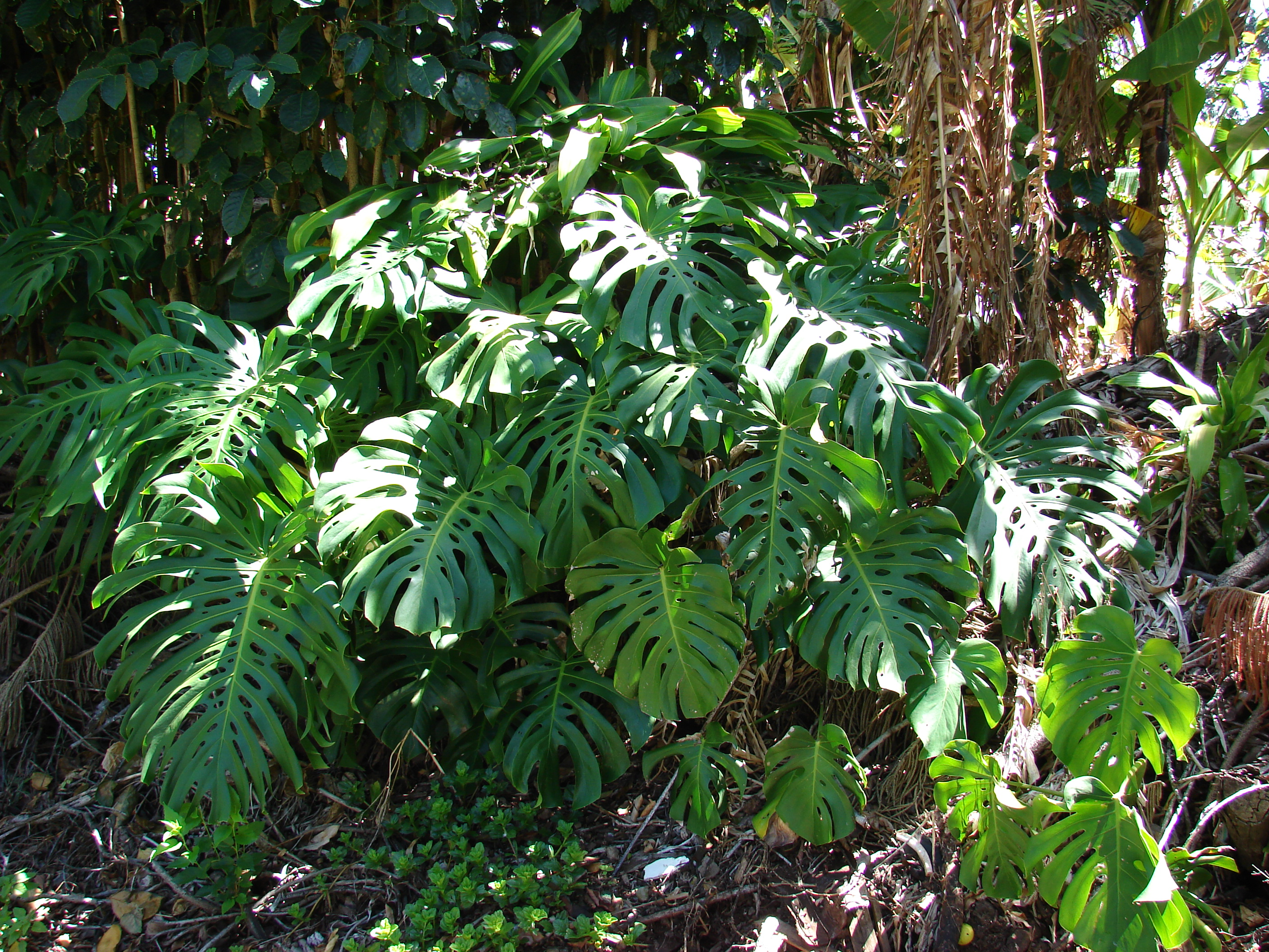 Monstera deliciosa (habit). Location: Maui, makawao